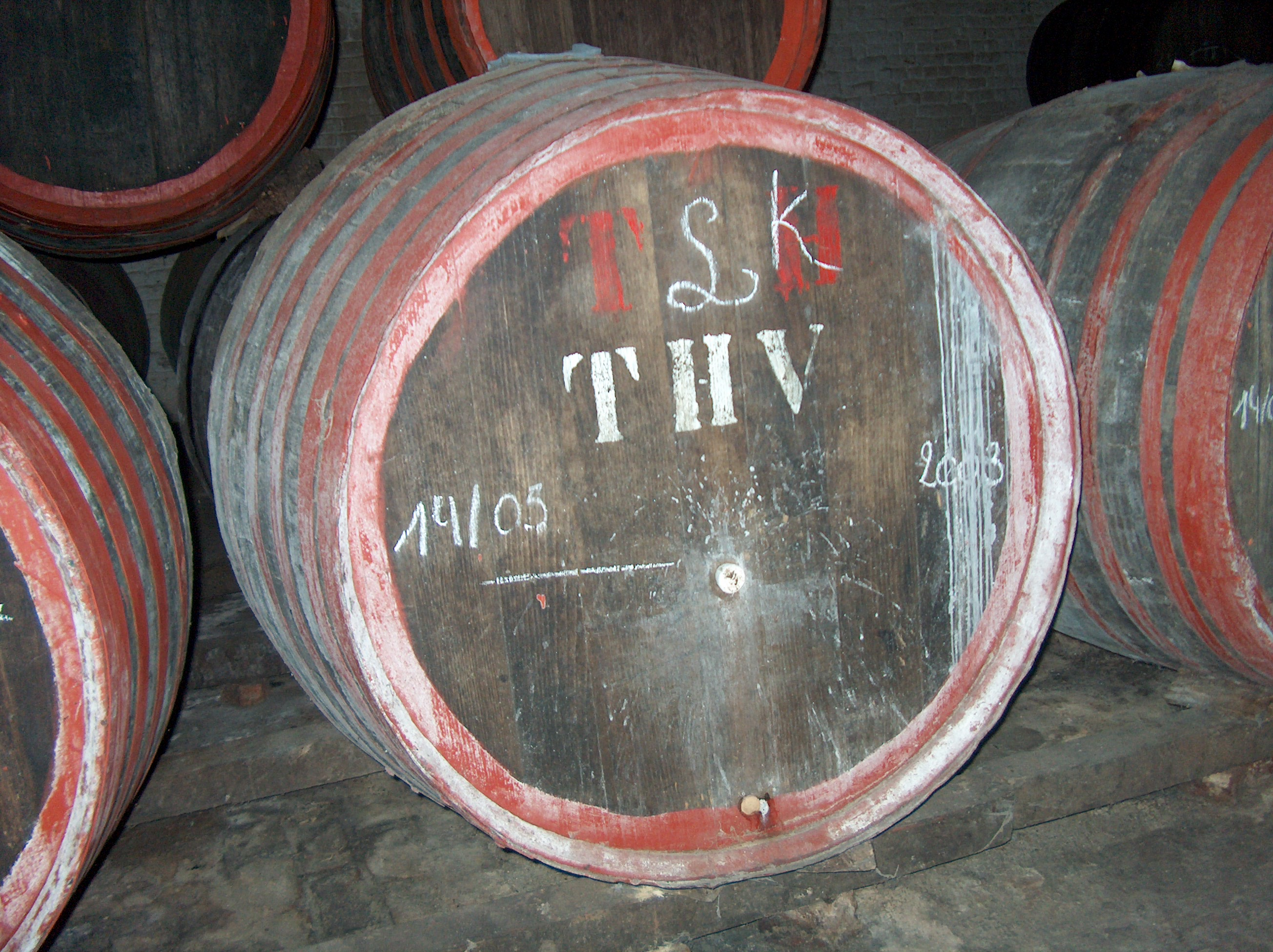 oaken beer barrel in brewery Hanssen